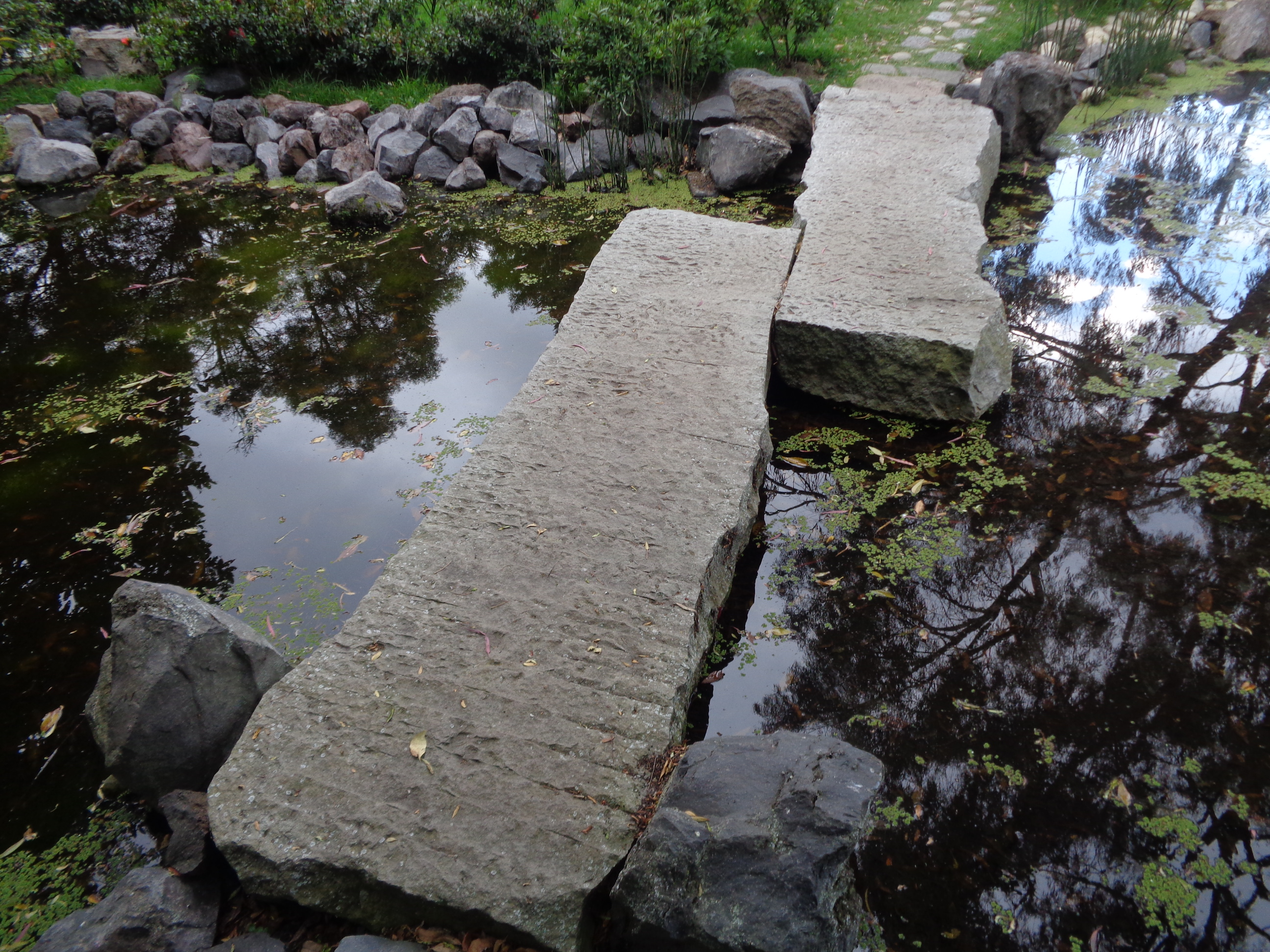 Jardín Botánico de Quito, cool stone bridge.